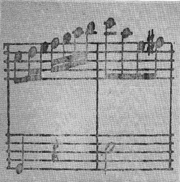 The first published digital scan of a music score that was used to attempt Optical Music Recognition in 1971.